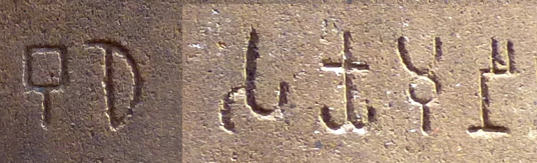 Buddha Sakyamunī on the Rummindei pillar of Ashoka